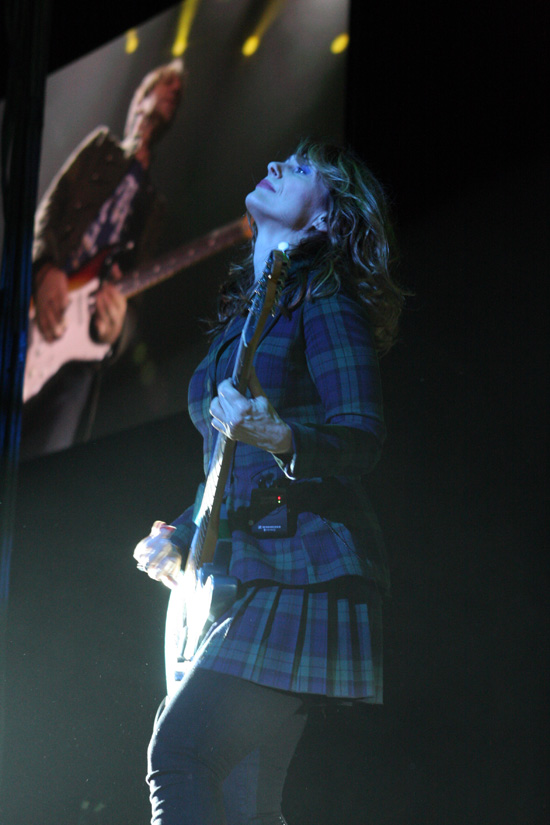 Def Leppard go hard in Sydney Australia Def Leppard have still got it. Rolling Stone Magazine, the music and entertainment bible, may have labeled the British rock group the "unluckiest band in the world", but the fans and media tonight sure felt lucky to experience them live. They headlined the Sydney Entertainment Centre tonight, and support group, Heart, showed they had plenty of that. It was Heart's first Australian tour believe it or not and Ann and Nancy Wilson sounded fantastic. We understand Def Leppard are just coming off a rest, having spent more than a decade on the road. One may have thought that DL may have slowed down quite a bit, but this wasn't the case. The boys - Phil Collen, Rick Savage, Rick Allen and Vivian Campbell fronted by Elliot, we're here to party big time. They offered up loud, monster rock, helped along with fist pumping and strong crowd support, joining in for much of the fun. The track list included Rocket, Animal, Let’s Get Rocked Two Steps Behind. Base man Savage and the strong one-armed drummer Allen led the open. The number that many of the crowd had come to see was Pour Some Sugar On Me, with fans going nutso. Like fellow rock gods, The Rolling Stones, age has hardly put a dent in their performance or sound. The Sydney Entertainment Centre has been the Sydney home to a lot of great rock bands over the past year and Def Leppard need not play second fiddle to anyone. Heart gave it their all too. Rock on. Websites Def Leppard Heart Sydney Entertainment Centre Eva Rinaldi Photography Flickr Eva Rinaldi Photography Music News Australia